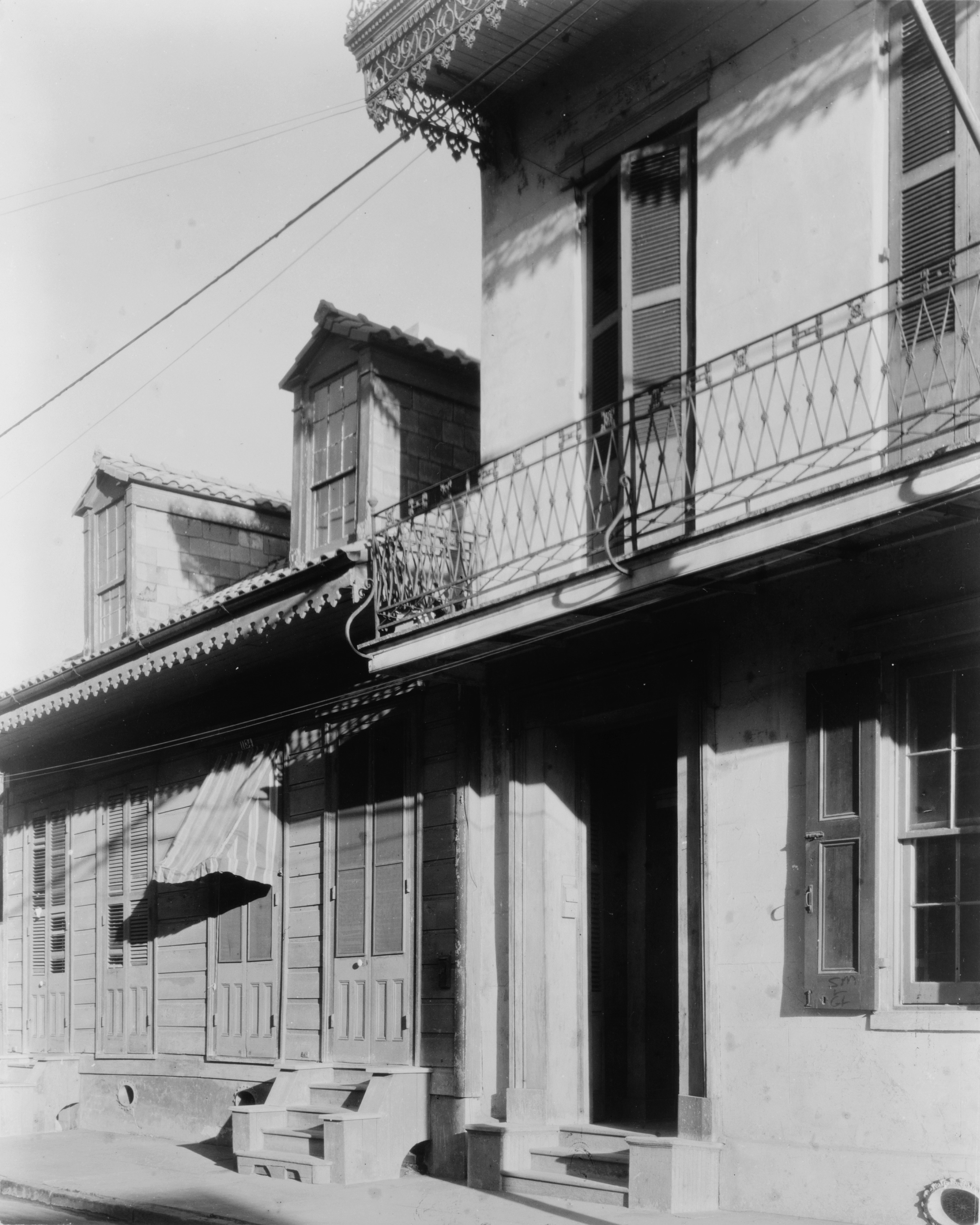 Title "Arcady"--"where all the leaves are merry" Summary Frances Benjamin Johnston's house, 1132 Bourbon Street, New Orleans, Louisiana. Contributor Names Johnston, Frances Benjamin, 1864-1952, photographer Created / Published [between 1930 and 1940(?)] Subject Headings - Houses--Louisiana--New Orleans--1930-1940 Format Headings Photographic prints--1930-1940. Notes - Frances Benjamin Johnston Collection (Library of Congress). Medium 1 photographic print. Call Number/Physical Location LOT 11734-6 [P&P] Repository Library of Congress Prints and Photographs Division Washington, D.C. 20540 USA Digital Id cph 3c20441 //hdl.loc.gov/loc.pnp/cph.3c20441 Library of Congress Control Number 98506411 Reproduction Number LC-USZ62-120441 (b&w film copy neg.) Rights Advisory No known restrictions on publication. Online Format image Description 1 photographic print. | Frances Benjamin Johnston's house, 1132 Bourbon Street, New Orleans, Louisiana. LCCN Permalink